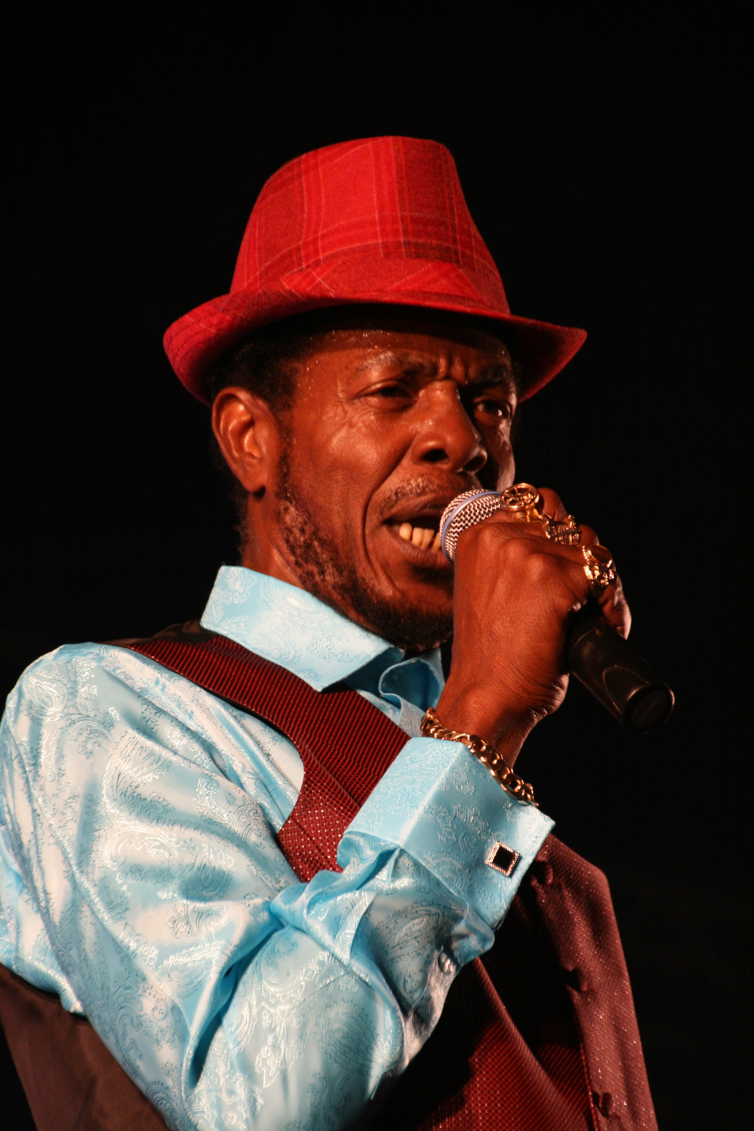 Michael Prophet live on stage in Belgium 2014 at Heroes in the Park with the Asham Band on 7th of August 2014